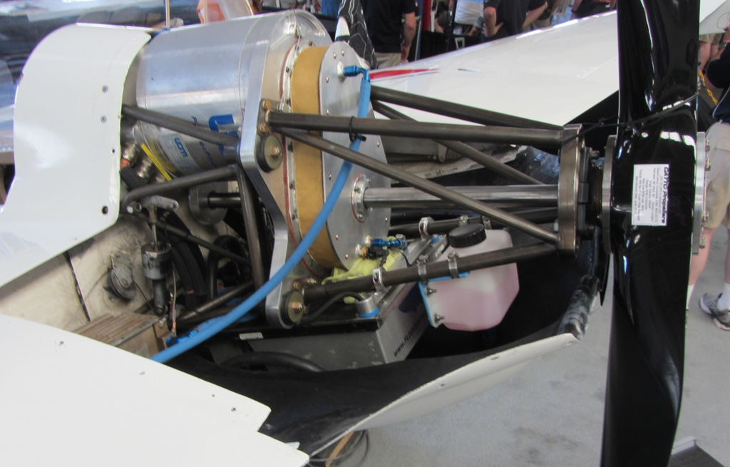 Rutan Long-EZ with electric powerplant